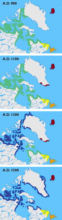 Maps showing the different cultures in Greenland, Labrador, Newfoundland and the Canadian arctic islands in the years 900, 1100, 1300 and 1500. The green colour shows the Dorset Culture, blue the Thule Culture, red Norse Culture, yellow Innu and orange Beothuk.